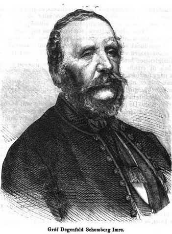 Portrait of Degenfeld-Schonburg Imre